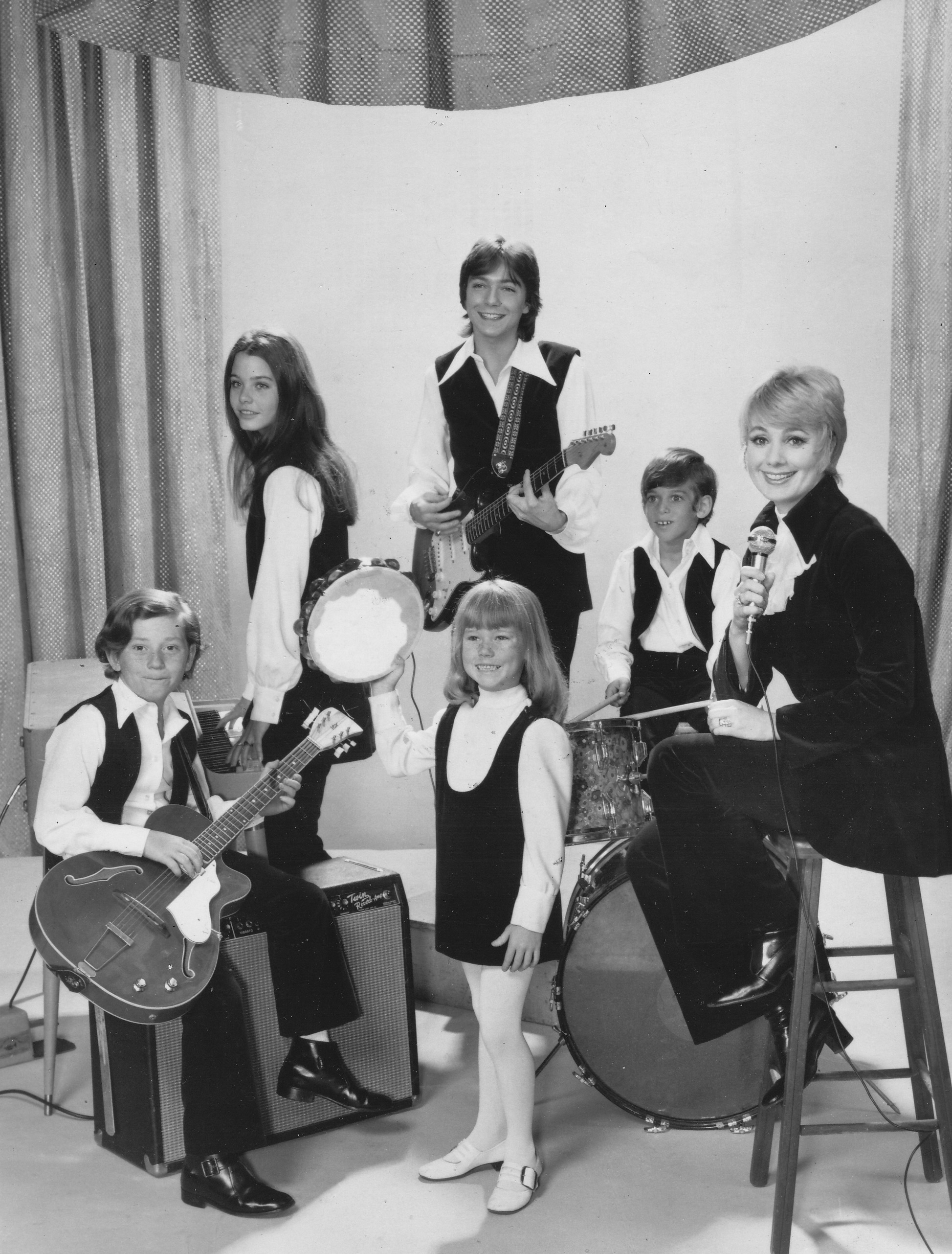 Publicity photo of television actors, (Clockwise from top) David Cassidy, Jeremy Gelbwaks, Shirley Jones, Suzanne Crough, Danny Bonaduce and Susan Dey promoting the September 25, 1970 premiere of the ABC comedy series The Partridge Family.